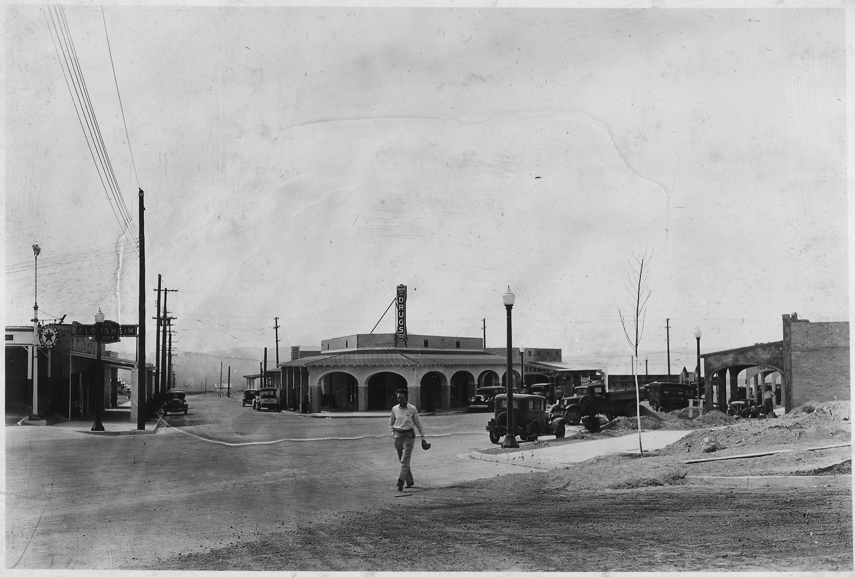 Scope and content: Photograph from Volume Two of a series of photo albums documenting the construction of Hoover Dam, Boulder City, Nevada.